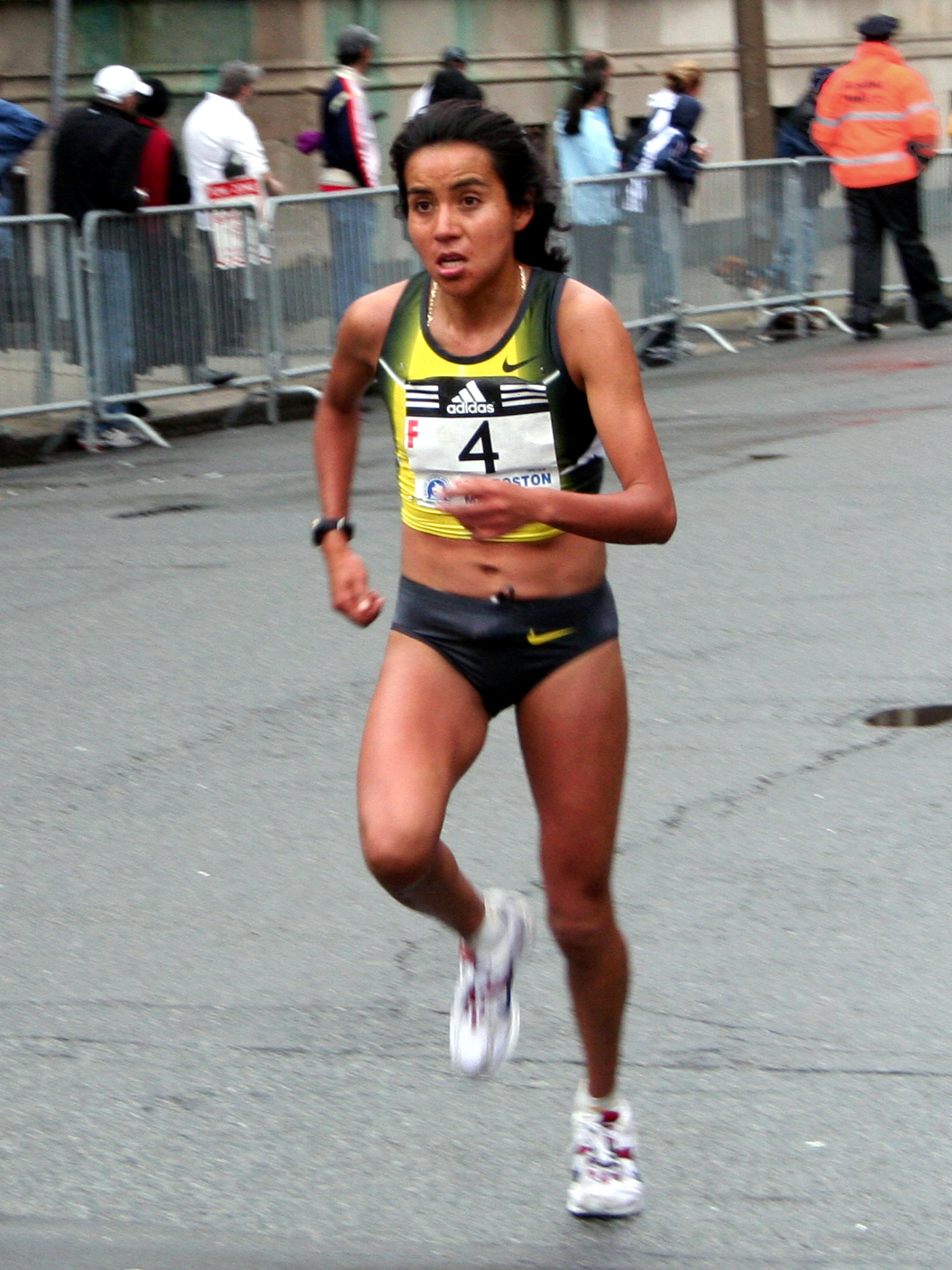 Madai Perez at the 2007 Boston Marathon